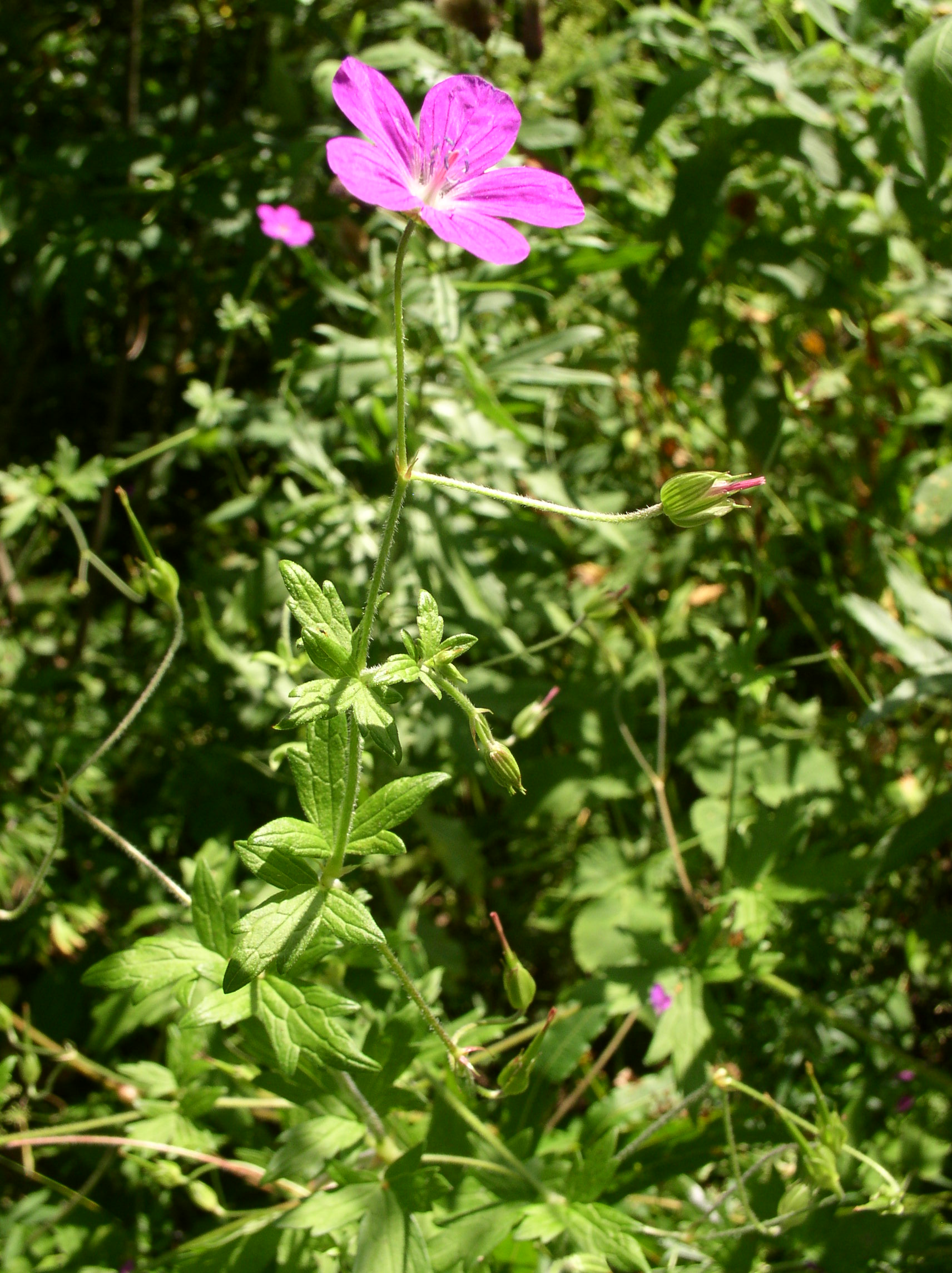 Geranium palustre in Savonlinna, Finland.